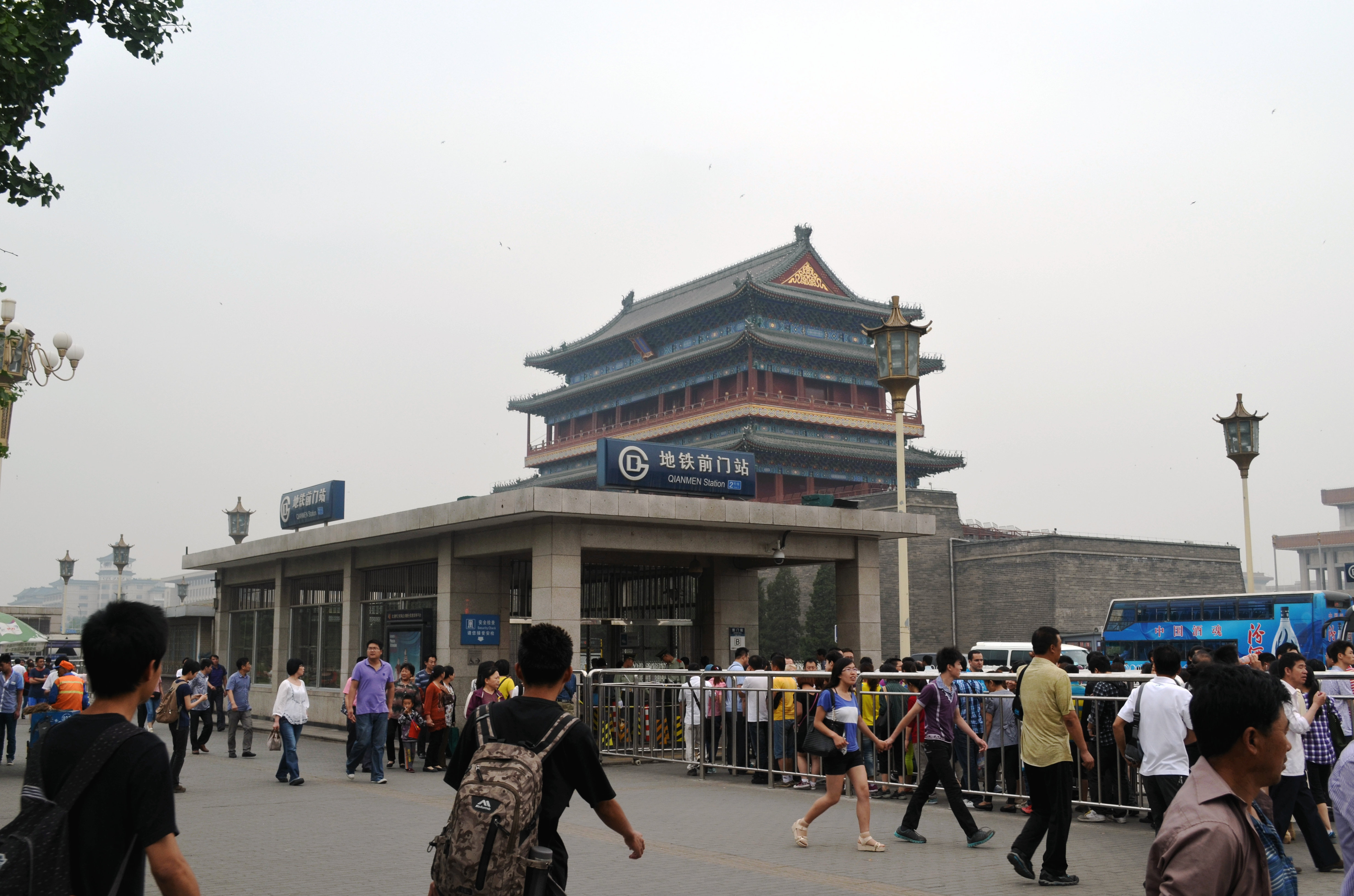 Qianmen Subway Station, Beijing